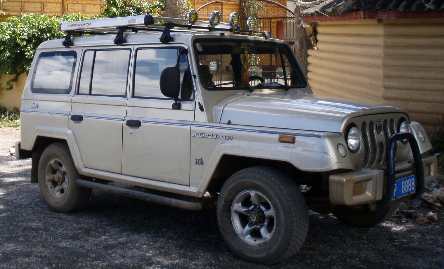 Beijing Zhanqi BJ2024 Z2Q1F1 - a five-door station wagon based on the original BJ212 Jeep, equipped with a 2.2 liter 102hp Toyota 4Y-M petrol engine. First introduced in 2000.